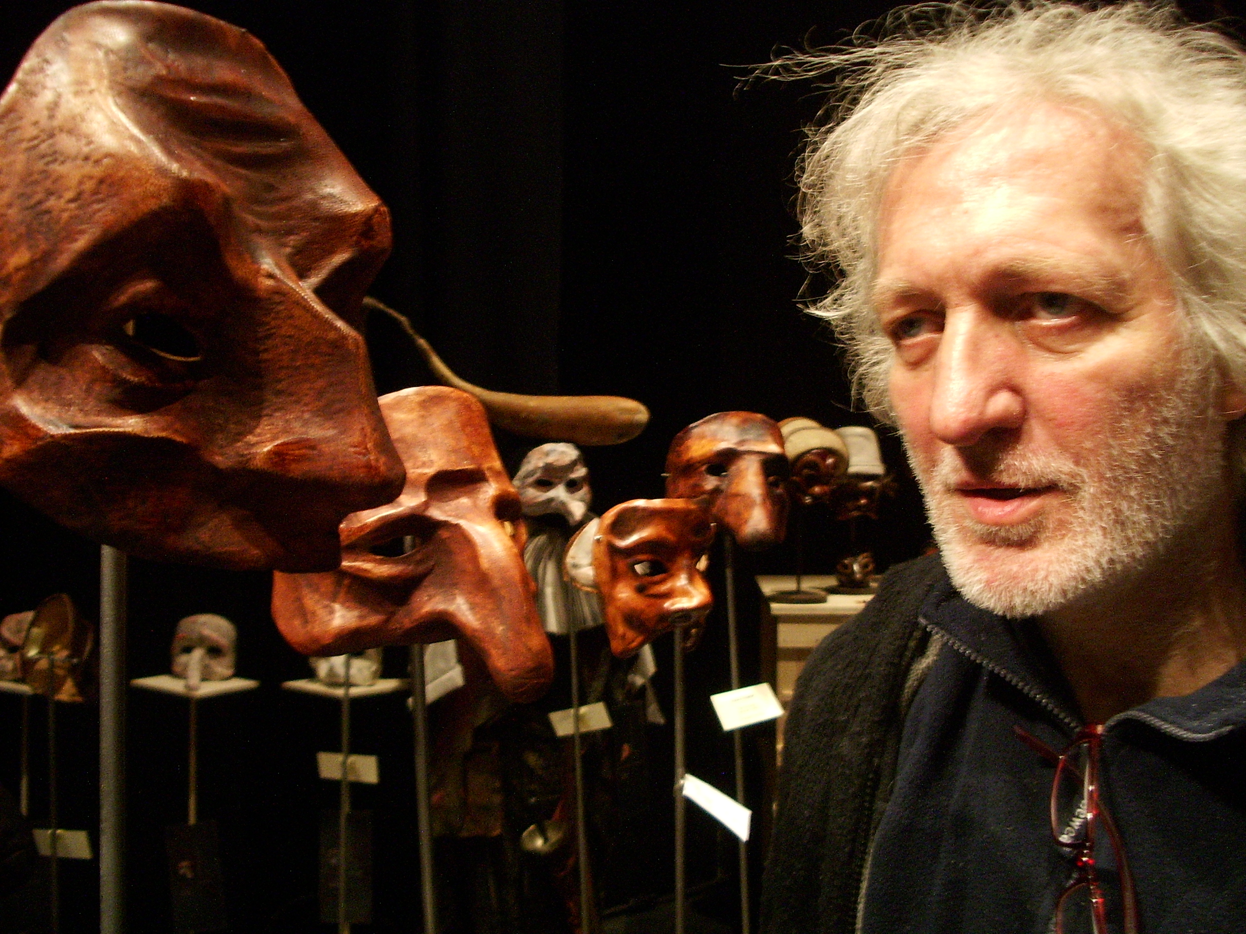 Pierangelo Summa and some of his masks at the Commedia dell'Arte Day 2011, Turin, Italy